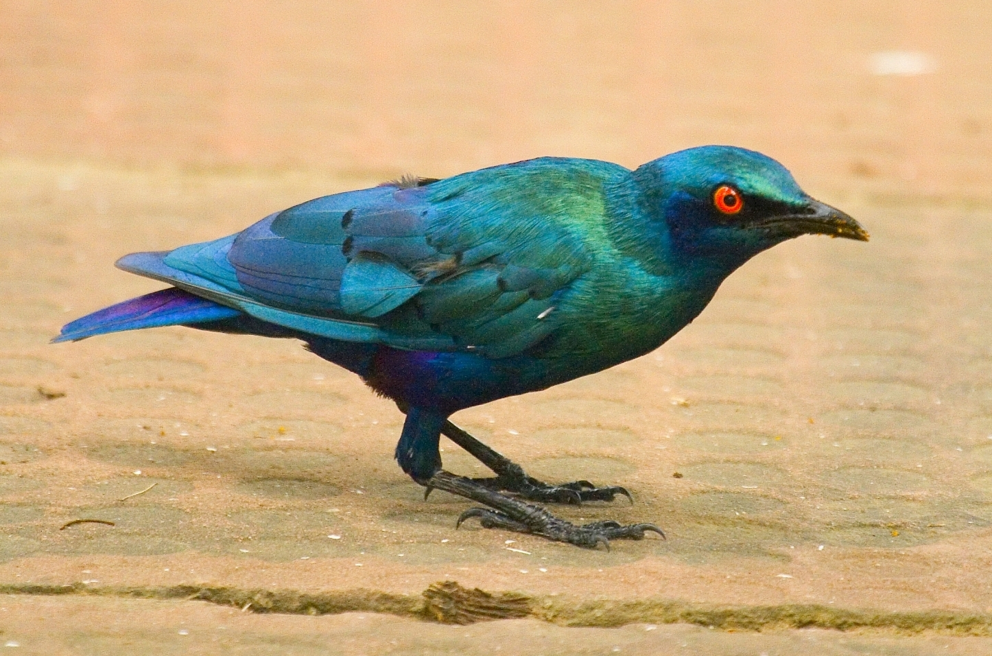 Lesser blue-eared glossy-starling in a garden at Sukuta, The Gambia, West Africa